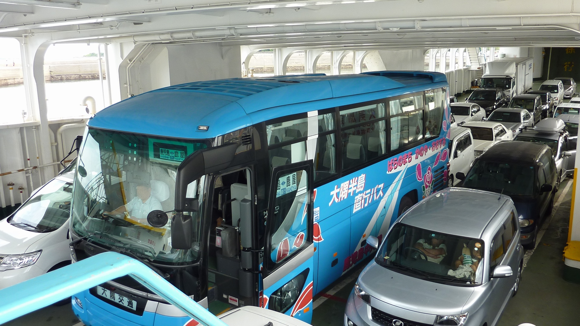 Kagoshima Chuo Station (Kagoshima City) Kanoya (Osumi Peninsula) Direct Bus